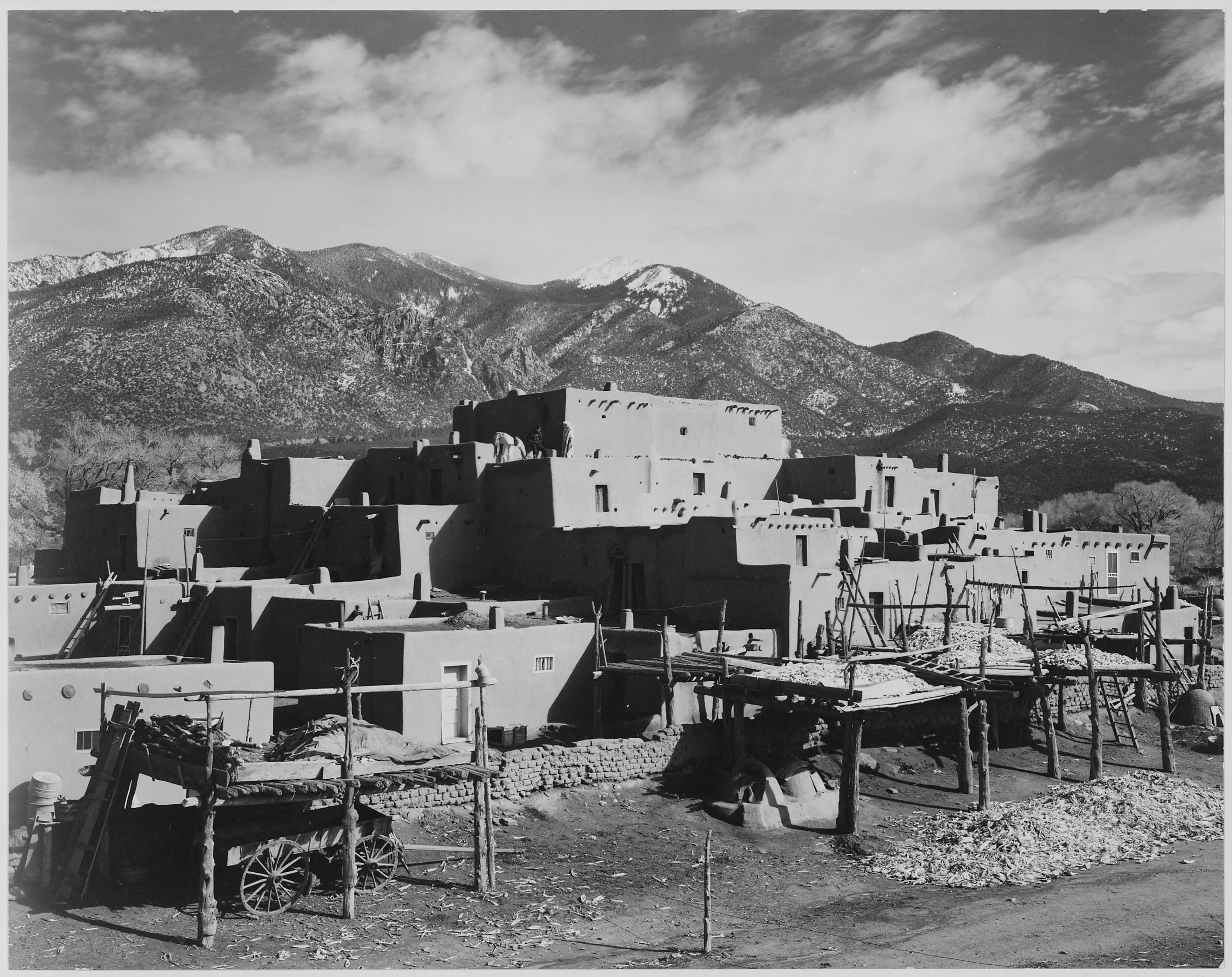 Full view of city, mountains in background, "Taos Pueblo National Historic Landmark, New Mexico, 1941."; From the series Ansel Adams Photographs of National Parks and Monuments, compiled 1941 - 1942, documenting the period ca. 1933 - 1942.